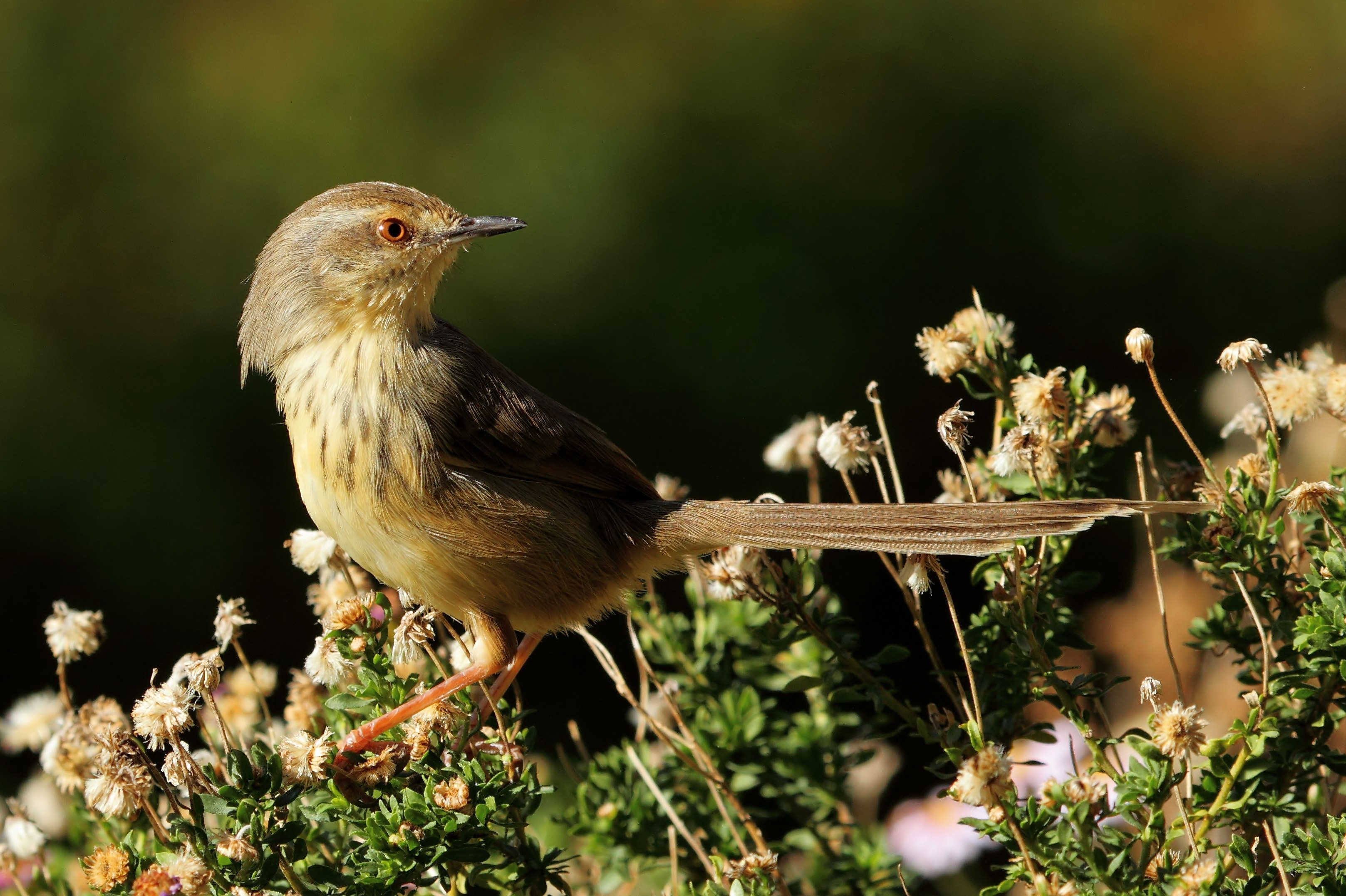 Drakensberg Prinia (Prinia hypoxantha); The Cavern, KwaZulu-Natal Drakensberg.